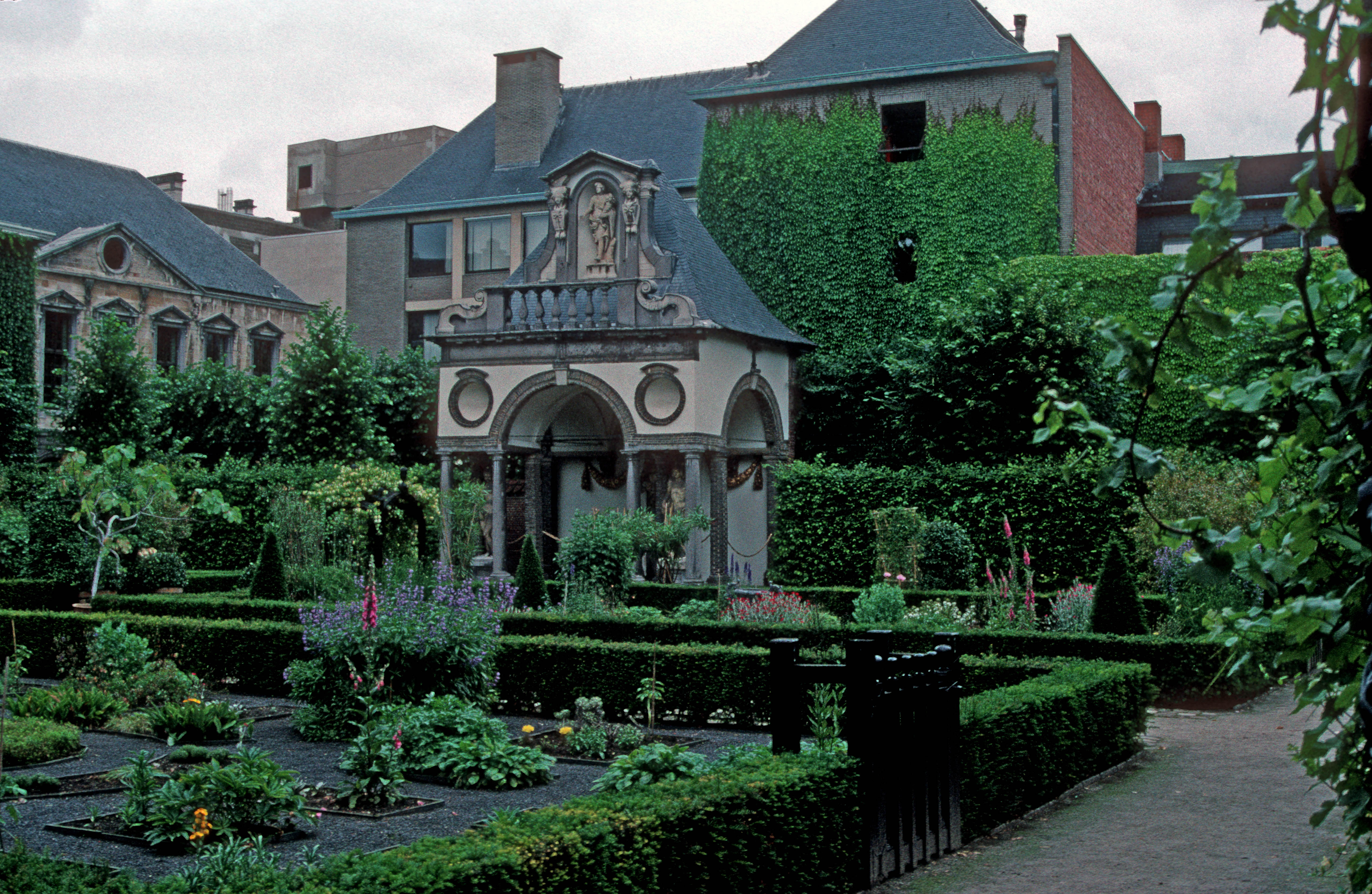 BAROQUE GARDEN WHICH RUBENS PLANNED.